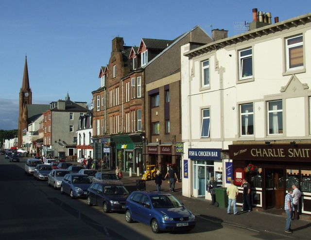 Gallowgate Street A typical Largs scene; pubs, fish & chip shops, amusement arcades and a church.